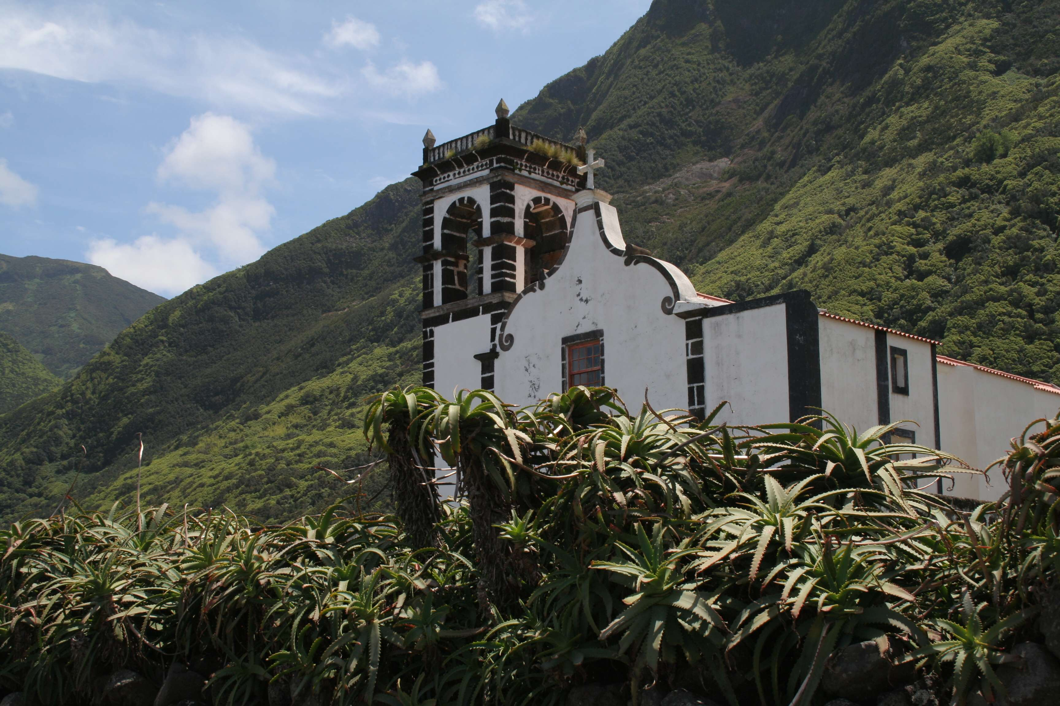 Front façade of the Church of Santo Cristo, Faja da Caldeira de Santo Cristo, Ribeira Seca, Velas, São Jorge (Azores), Portugal